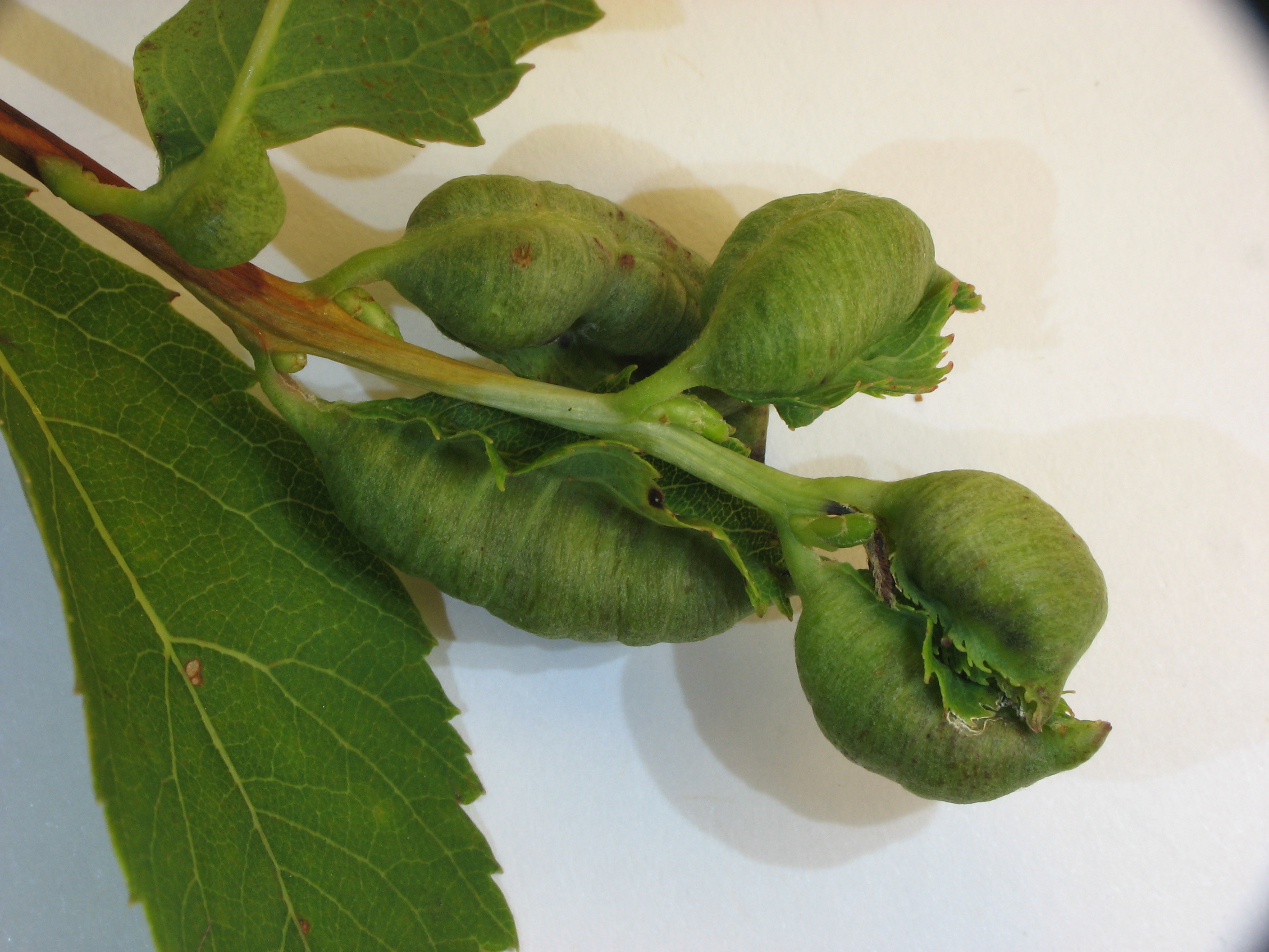 Galls made by gall midge, Dasineura salicifoliae, on meadowsweet (Spiraea latifolia). Schoodic Point, Acadia National Park, Hancock County, Maine, USA.